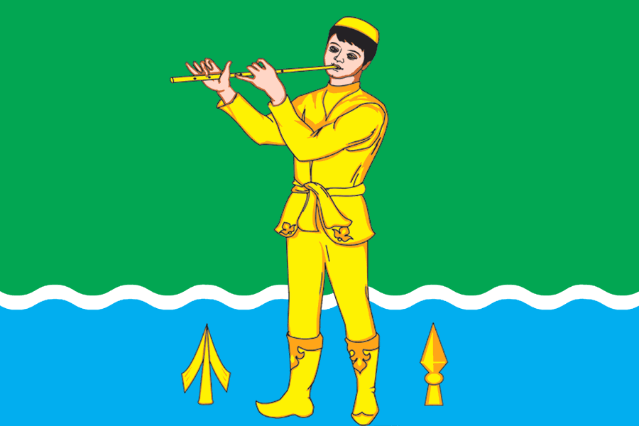 Muslyumovsky rayon (Tatarstan), flag